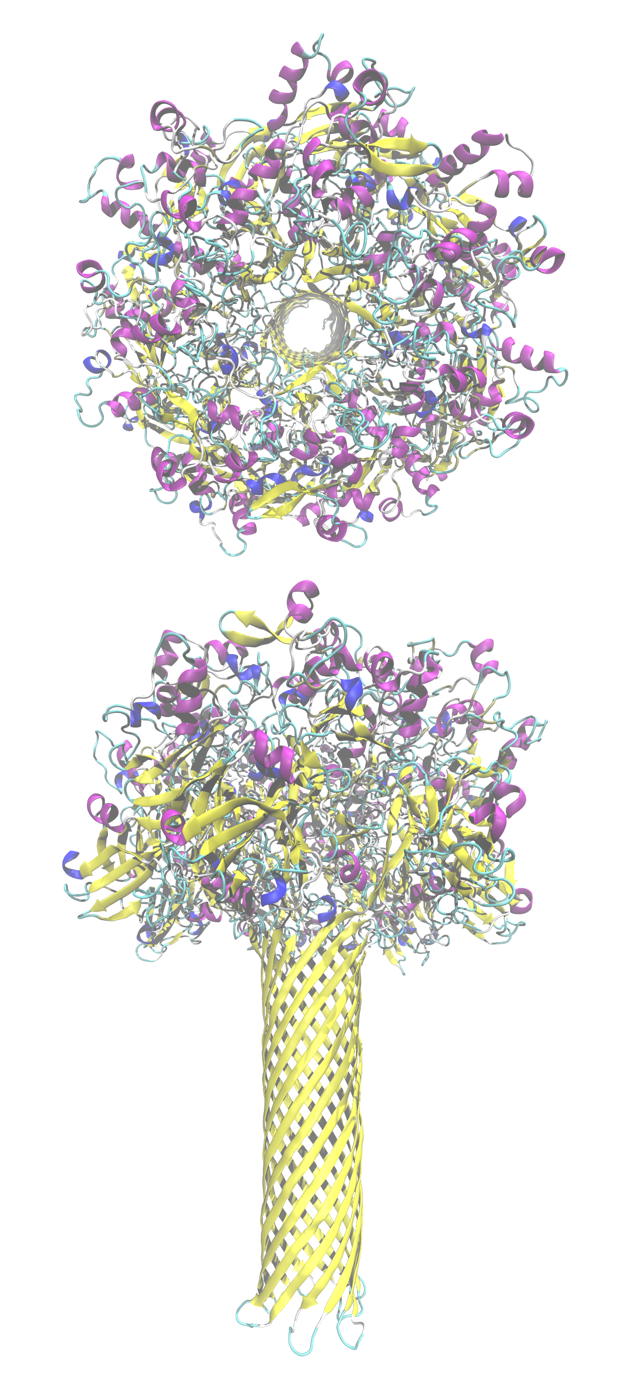 Ribbon model of anthrax toxin PA-63 heptamer pore, after PDB 1V36. Ref.: T.L.Nguyen (2004). Three-dimensional model of the pore form of anthrax protective antigen. Structure and biological implications. J Biomol Struct Dyn, 22, 253-265. PMID 15473701 This image was created with VMD